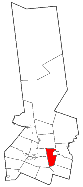 Map of Herkimer County highlighting Little Falls Town